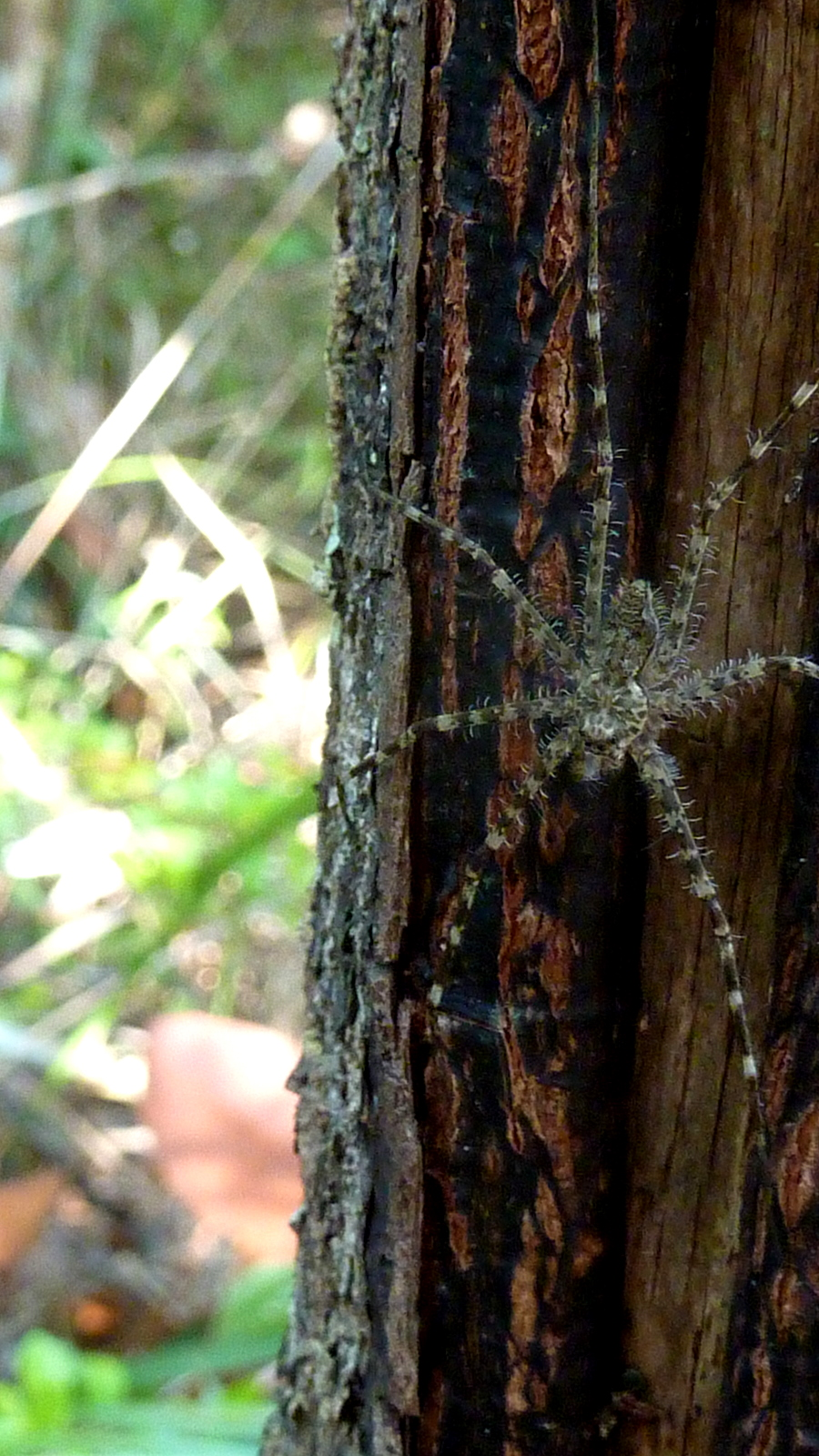 Syntrechalea sp.